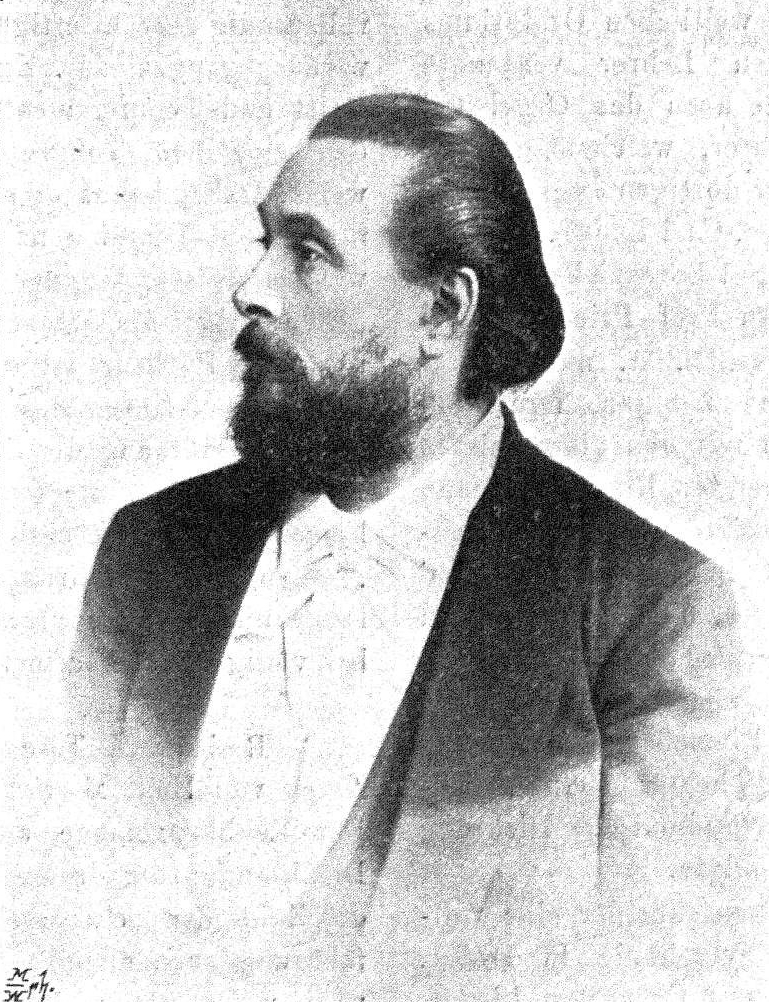 Georg Riemenschneider (1848–1913), German conductor and composer.